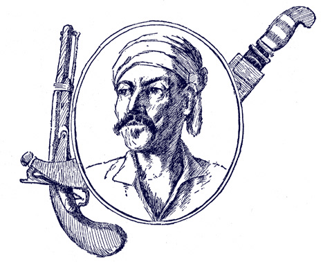 Jean Laffite Note: This is an artist's conception of Lafitte's appearance some 80 years later. While there is no reason to assume it is necessarily more accurate than more recent and more widely circulated artist's conception of Lafitte, it is at least now in the public domain.